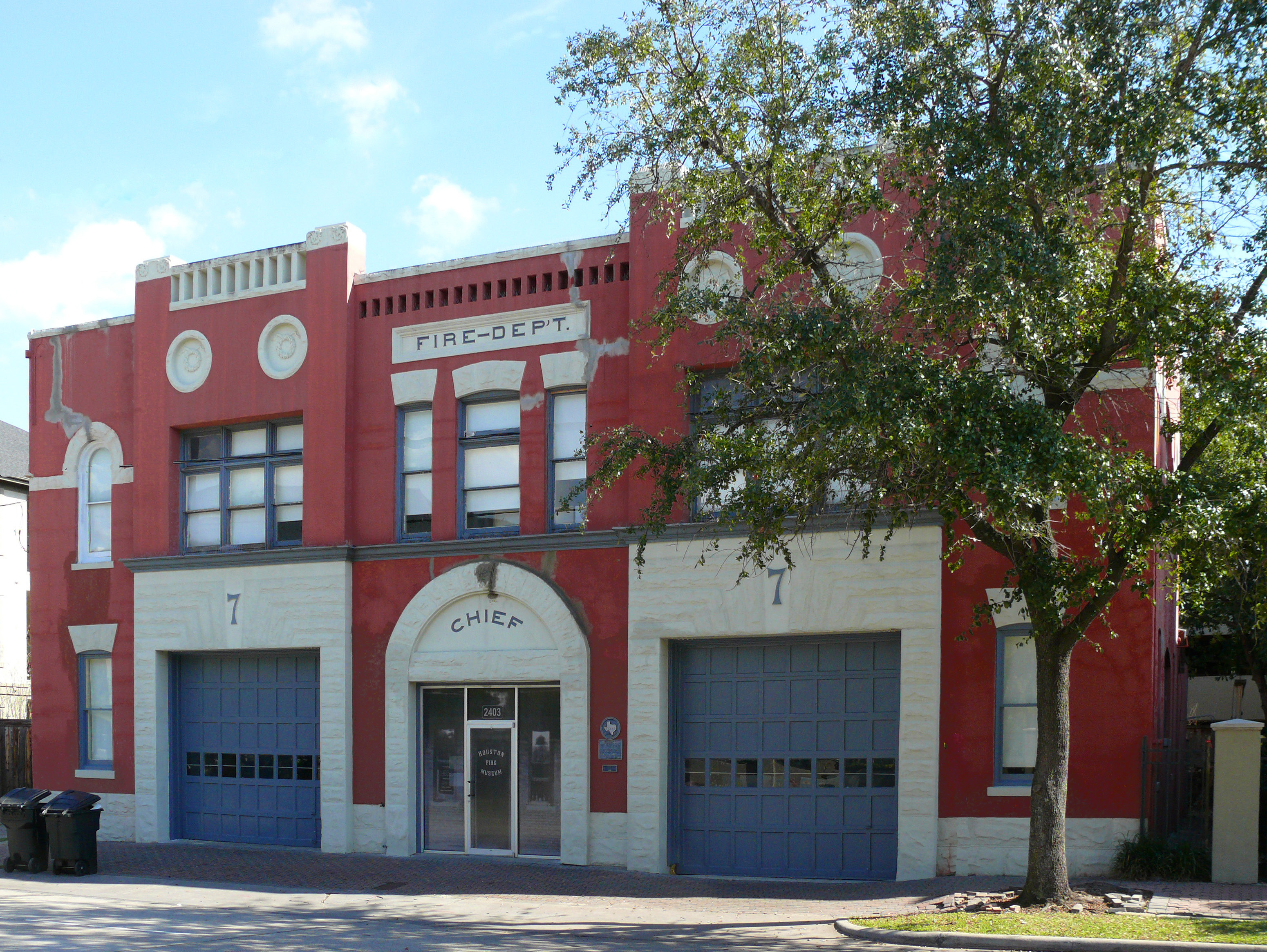 Houston's oldest fire house, this building was designed by Olle J. Lorehn (c. 1864-1939) and was completed in January 1899. The two-story brick structure features rusticated stone details, a five-bay front with central arched entry flanked by two apparatus bay entries, and unique parapet details. Updated in the 1920s to change from horse-drawn to motorized equipment, the station remained in active service until 1968. It serves as the Houston Fire Museum today.